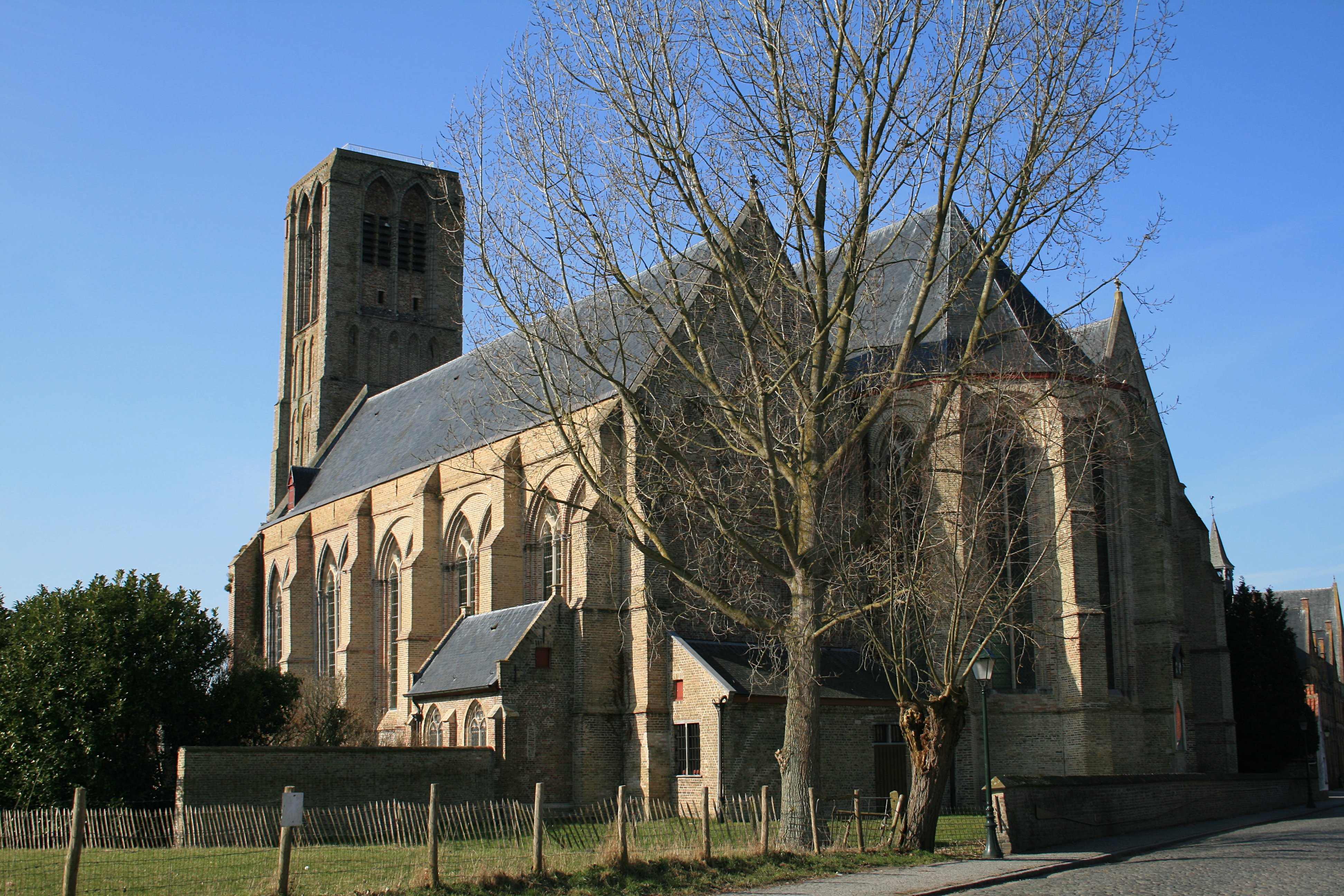 Damme (Belgium), Nave and apsis of the Church of Onze-Lieve-Vrouw-Hemelvaart (Our-Lady of the Assumption).